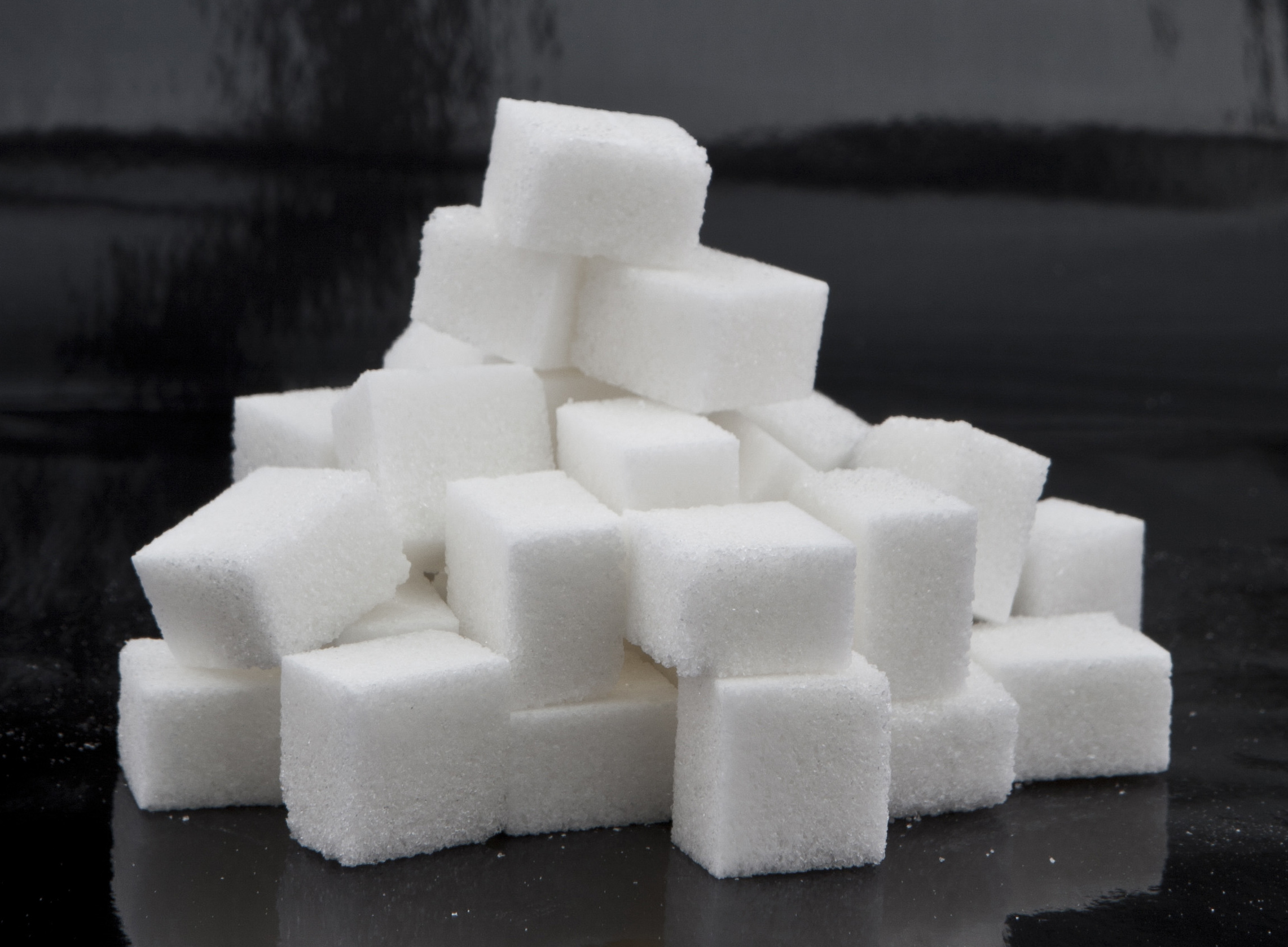 comments welcome